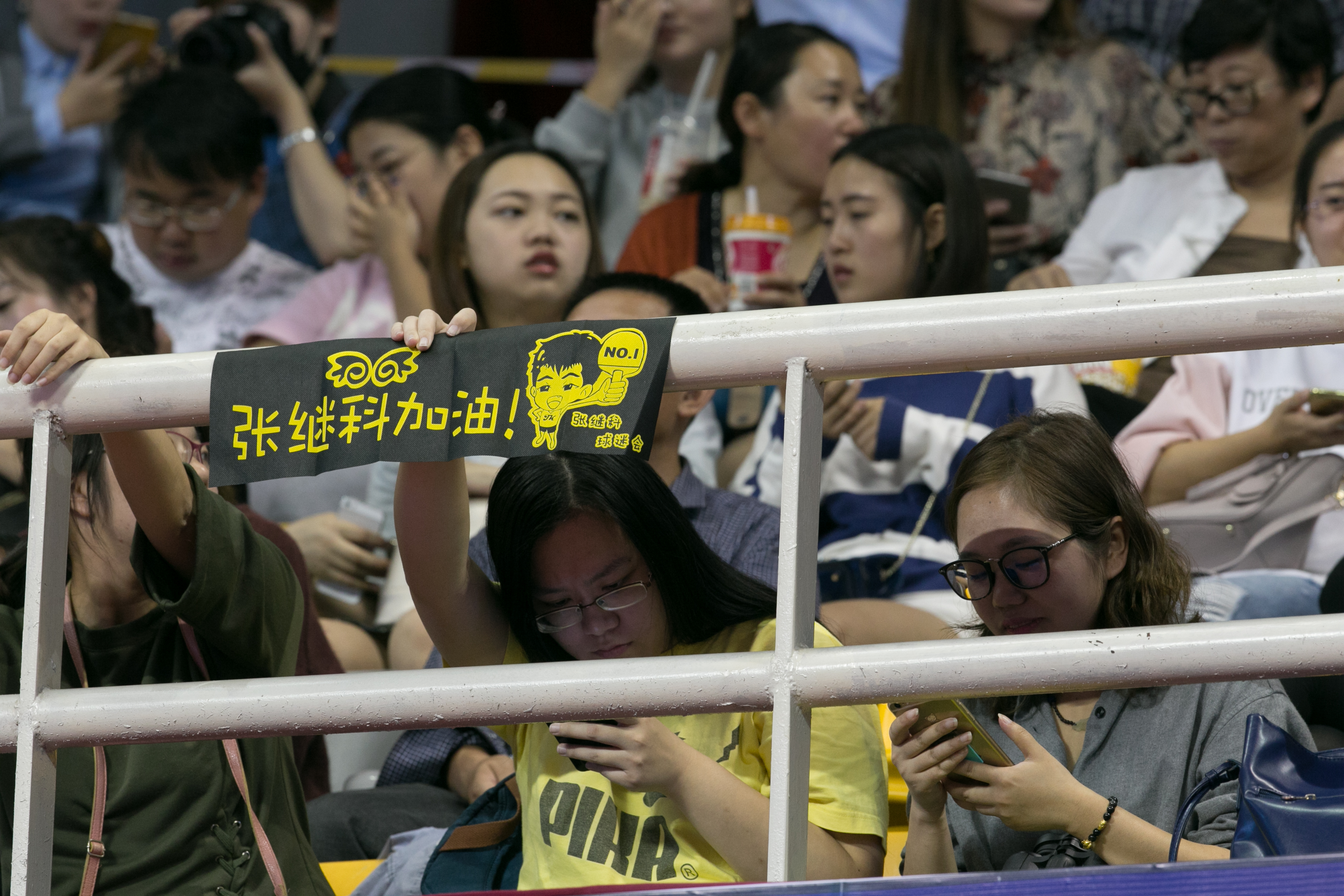 fans in National Championship 2016